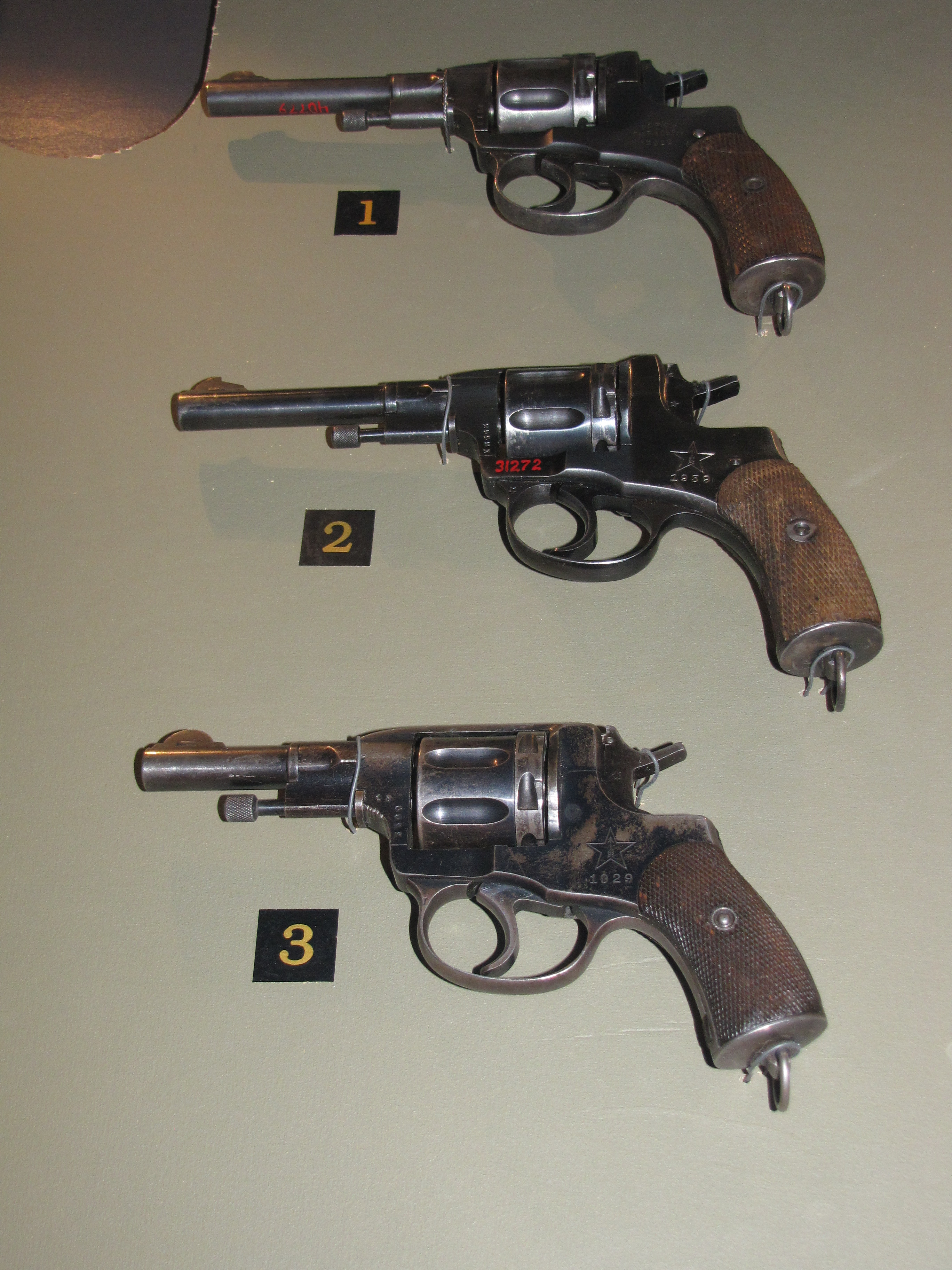 Three Nagant M1895 revolvers: 7.62 mm Nagant M1895 revolver, single-action private model, produced 1922. 7.62 mm Nagant M1895 revolver, double-action officer model, produced 1939. 7.62 mm Nagant revolver, shortened special model, double-action, produced 1929. Photographed in the "Winter War - 70 years" exhibition in the Military Museum of Finland.